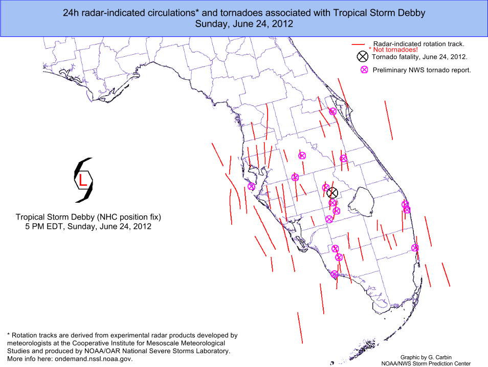 Overview of storm rotation tracks and preliminary tornado reports associated with Tropical Storm Debby in Florida, June 24, 2012.